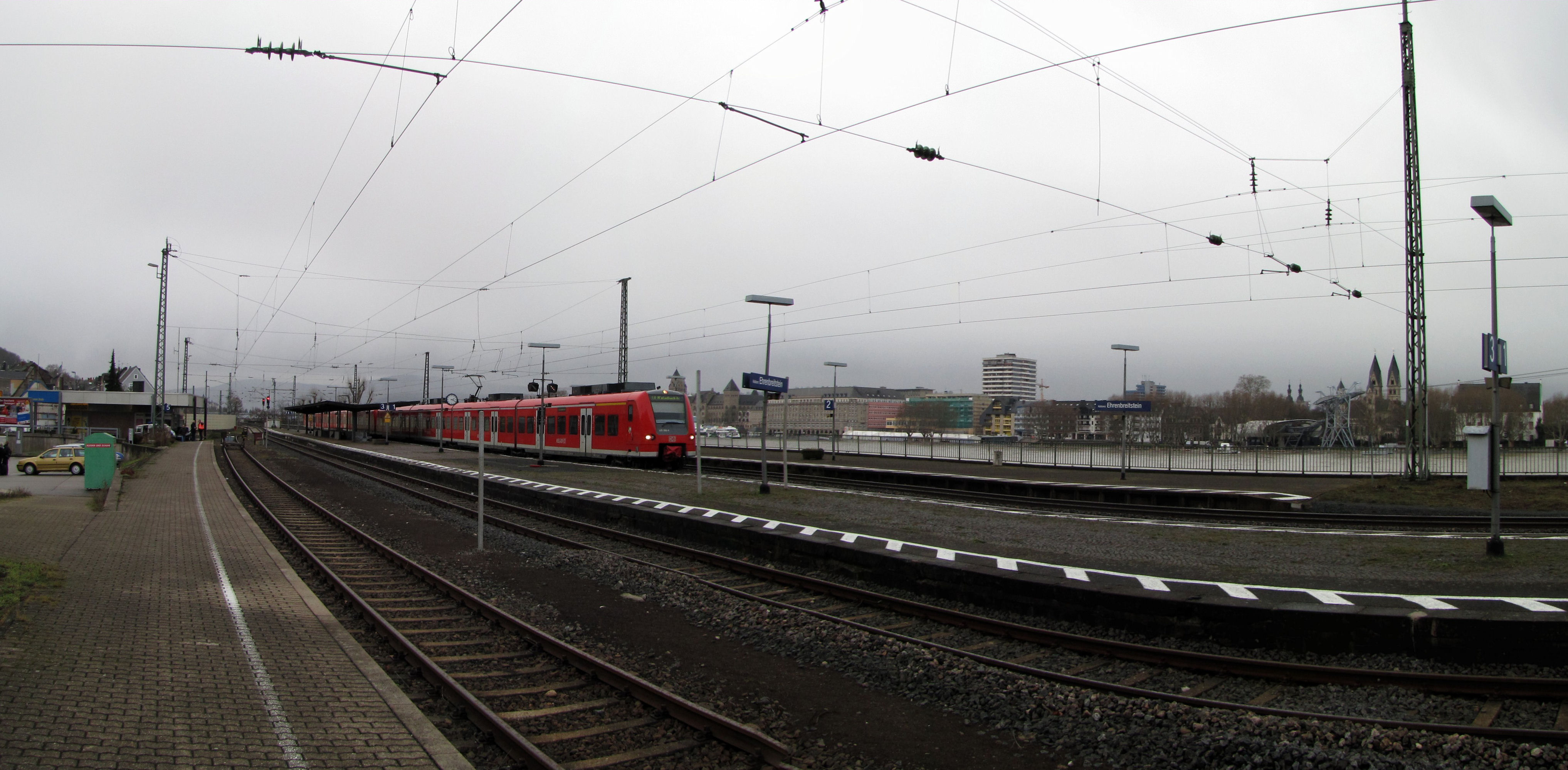 Station Koblenz-Ehrenbreitstein